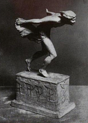 "The Off-Shore Wind" by Alice Morgan Wright